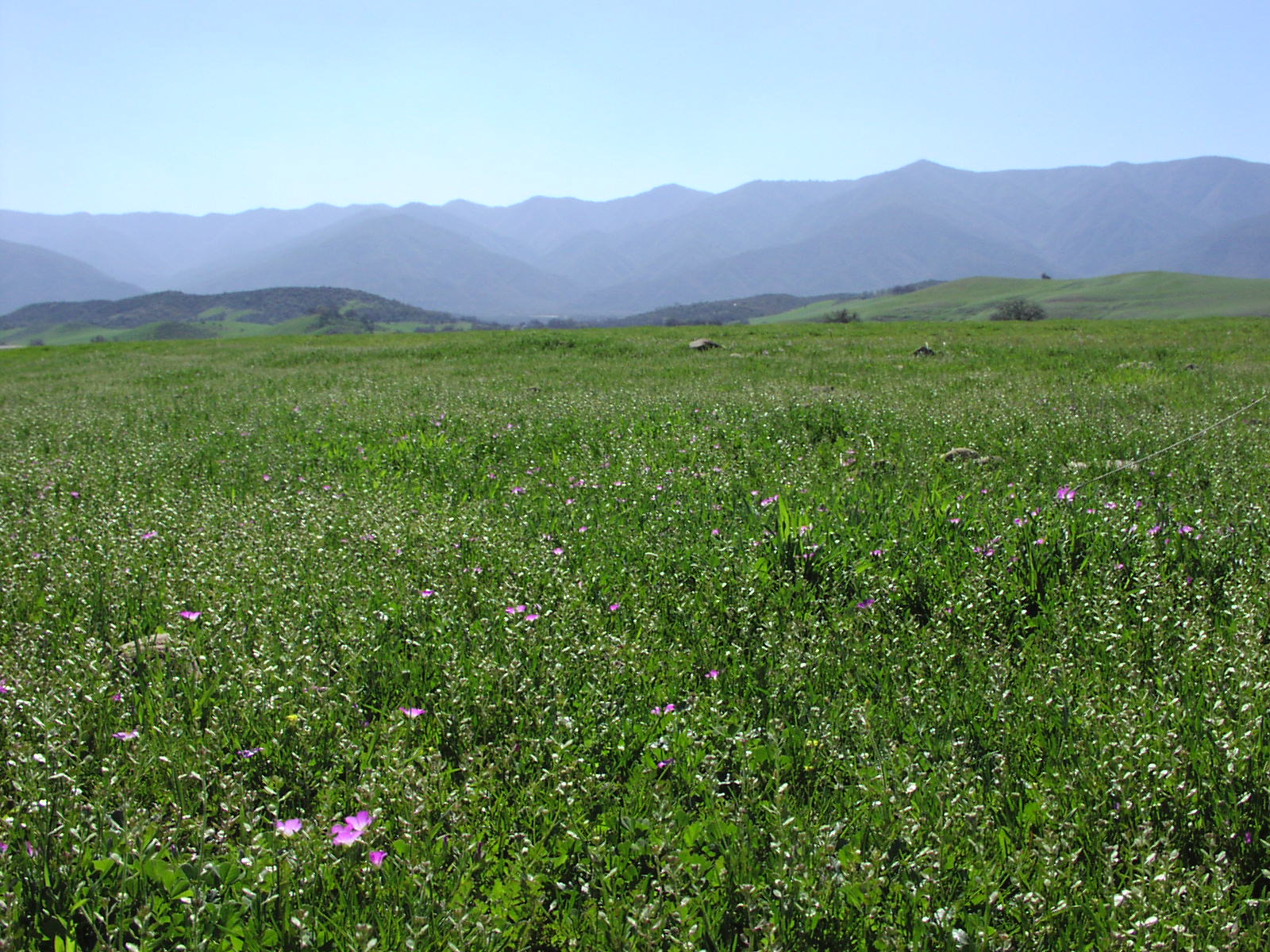 Sierra Madre Mountains from Cuyama Valley, showing wet-year meadows; March 8, 2008; photograph by User:Antandrus, GFDL